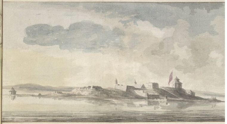 Detail from: Views of the Capital of New England and Castle of William and Mary in the Harbour of Boston. Surveyor: Pierie, William. Medium: Ink on paper. Date: 1773. Genre: Topographical Drawing. British Library.